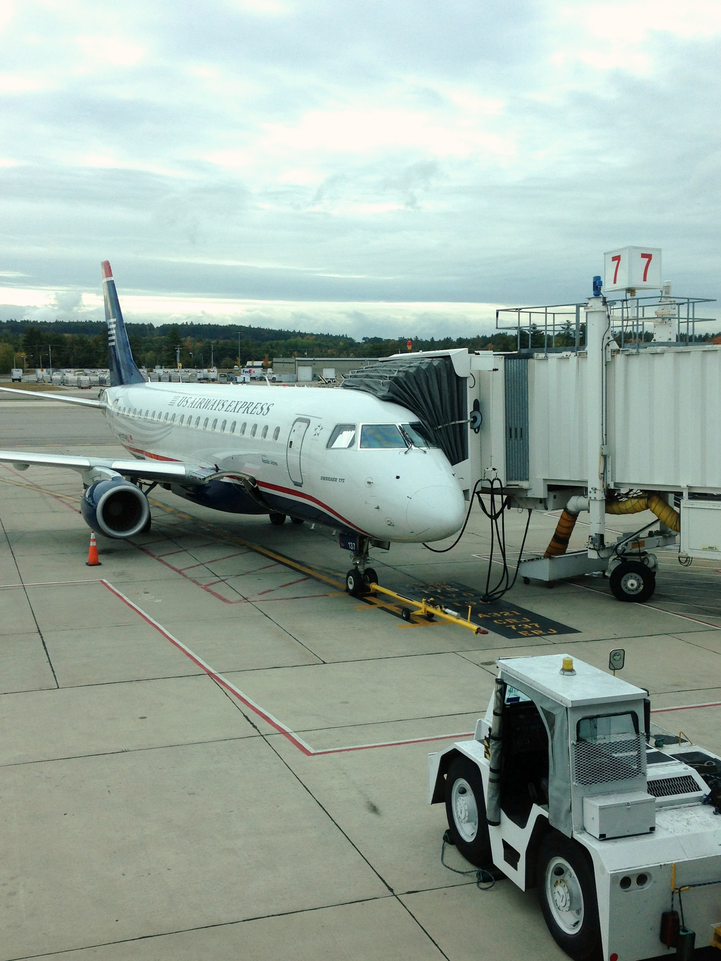 A Republic Airlines Embraer 175 registered N137HQ at Manchester–Boston Regional Airport, New Hampshire. Awaiting departure to Philadelphia (PHL) as US Airways Express Flight 3287